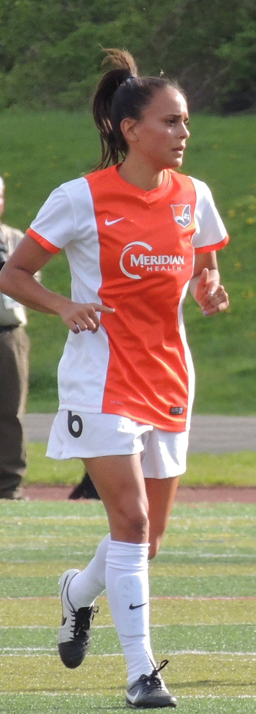 Taylor Lytle playing for Sky Blue at Chicago, on May 2 2015